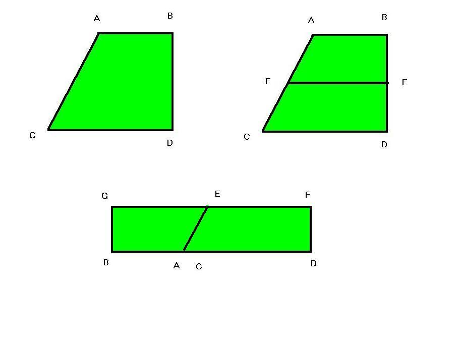 Area of right angle trapezoid直角梯形.面积